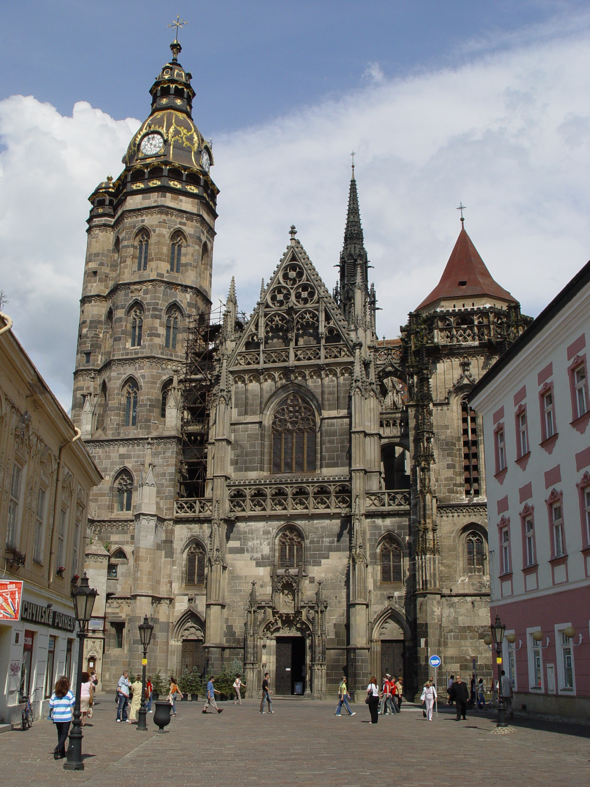 Slovakia, Kosice, St. Elizabeth's Catedral on Main Street